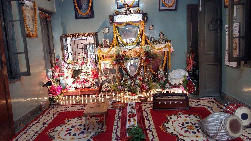 Sai Bhajan Hall at Sri Sri Radha Mohan Jew/Jeu temple, Entally (panbagan lane,kolkata)